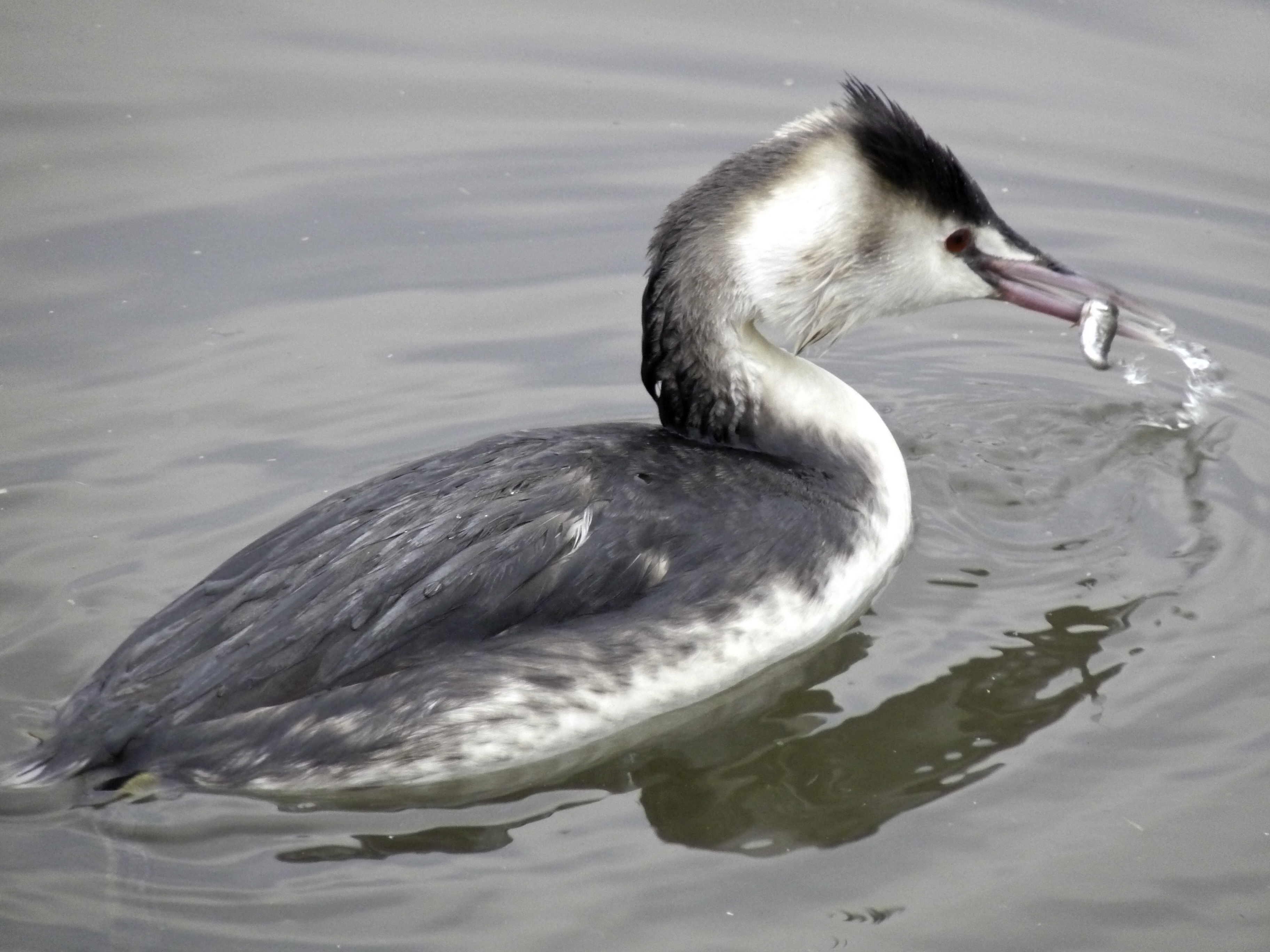 Latin name Podiceps cristatus Family Grebes (Podicipedidae) Overview A delightfully elegant waterbird with ornate head plumes which led to its being... Where to see them ... When to see them All year round What they eat Mainly fish